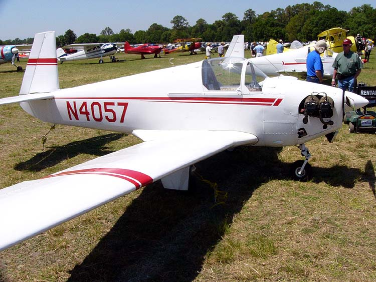 I took this photo of a Mooney M-18C Mite (N4057) at Sun 'n Fun Lakeland Florida